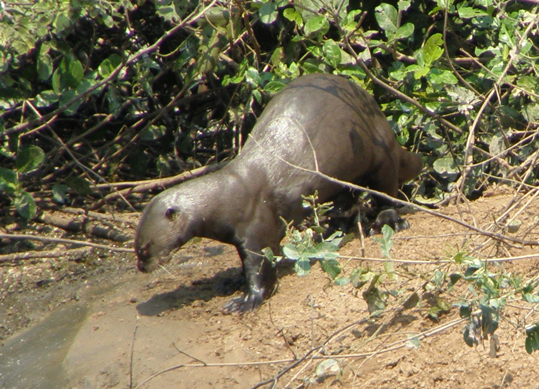 Loutre géante - Pantanal - Brésil